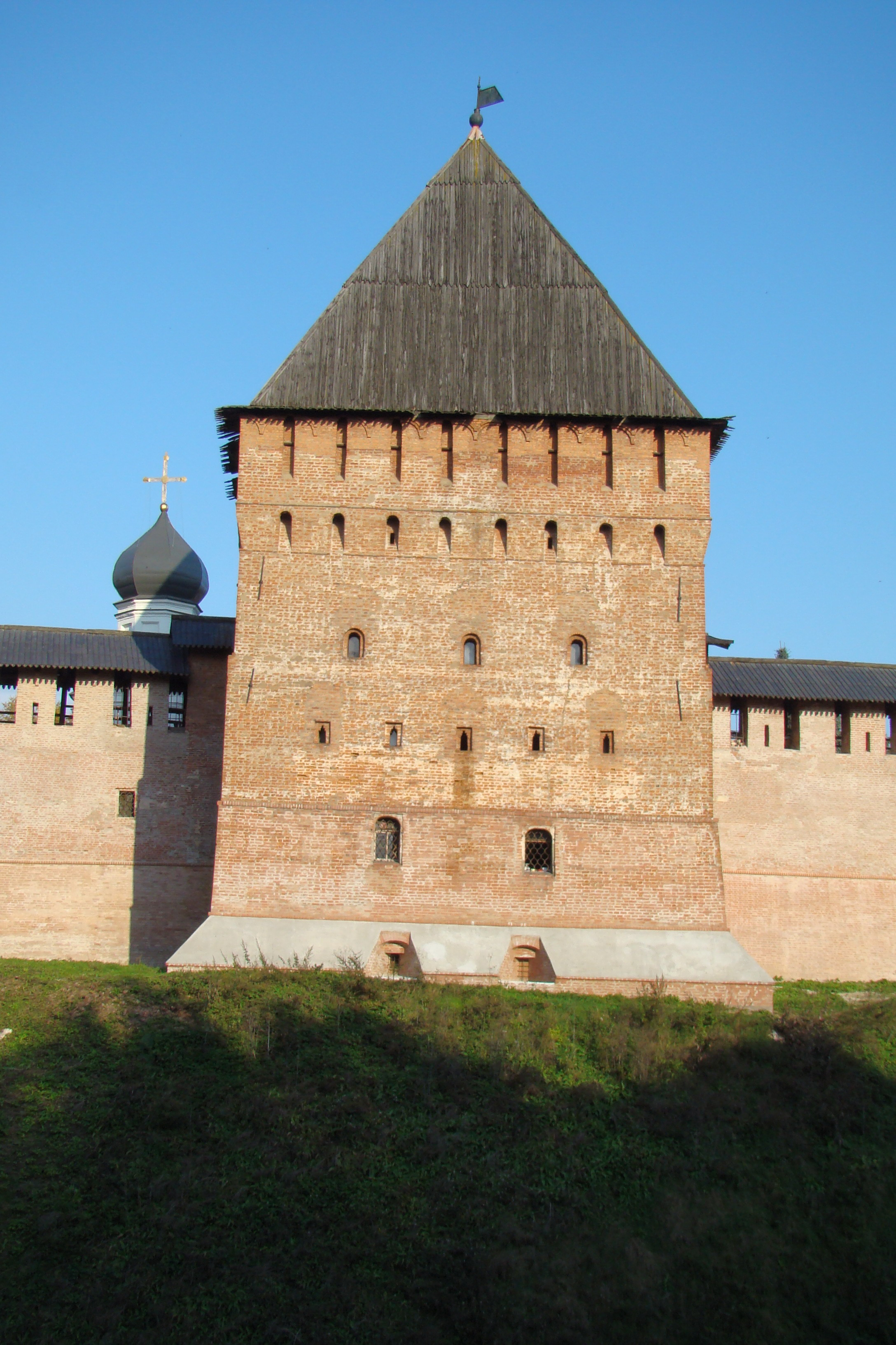 Pokrovskaya tower in Detinets (Velikiy Novgorod, Russia, 16th-century)